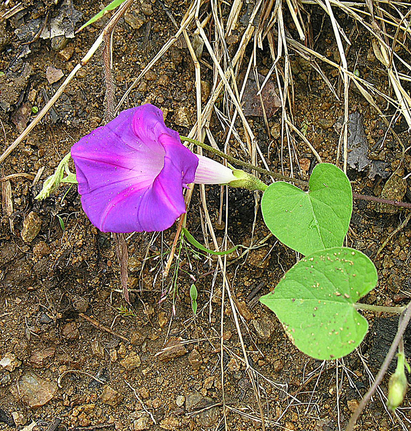 Native to Mexico and Guatemala where it is known as Jalapa de Orizaba. Photo from southern Oaxaca State, Mexico. In context at